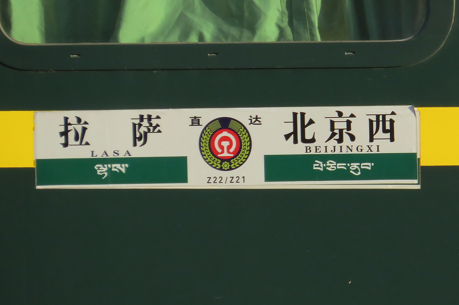 Former T27/28.